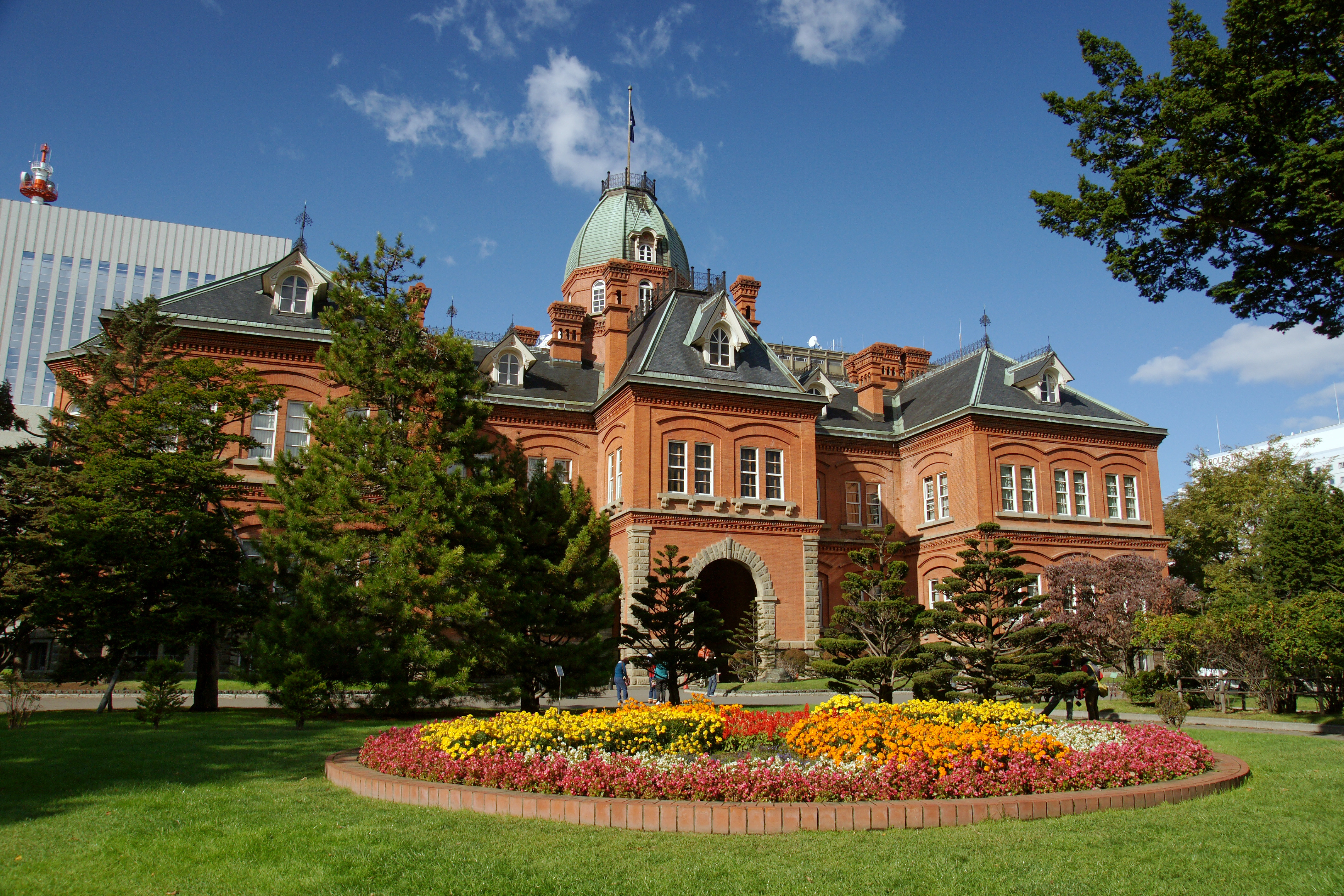 Former Hokkaido Prefectural Office Building in Sapporo, Hokkaido prefecture, Japan